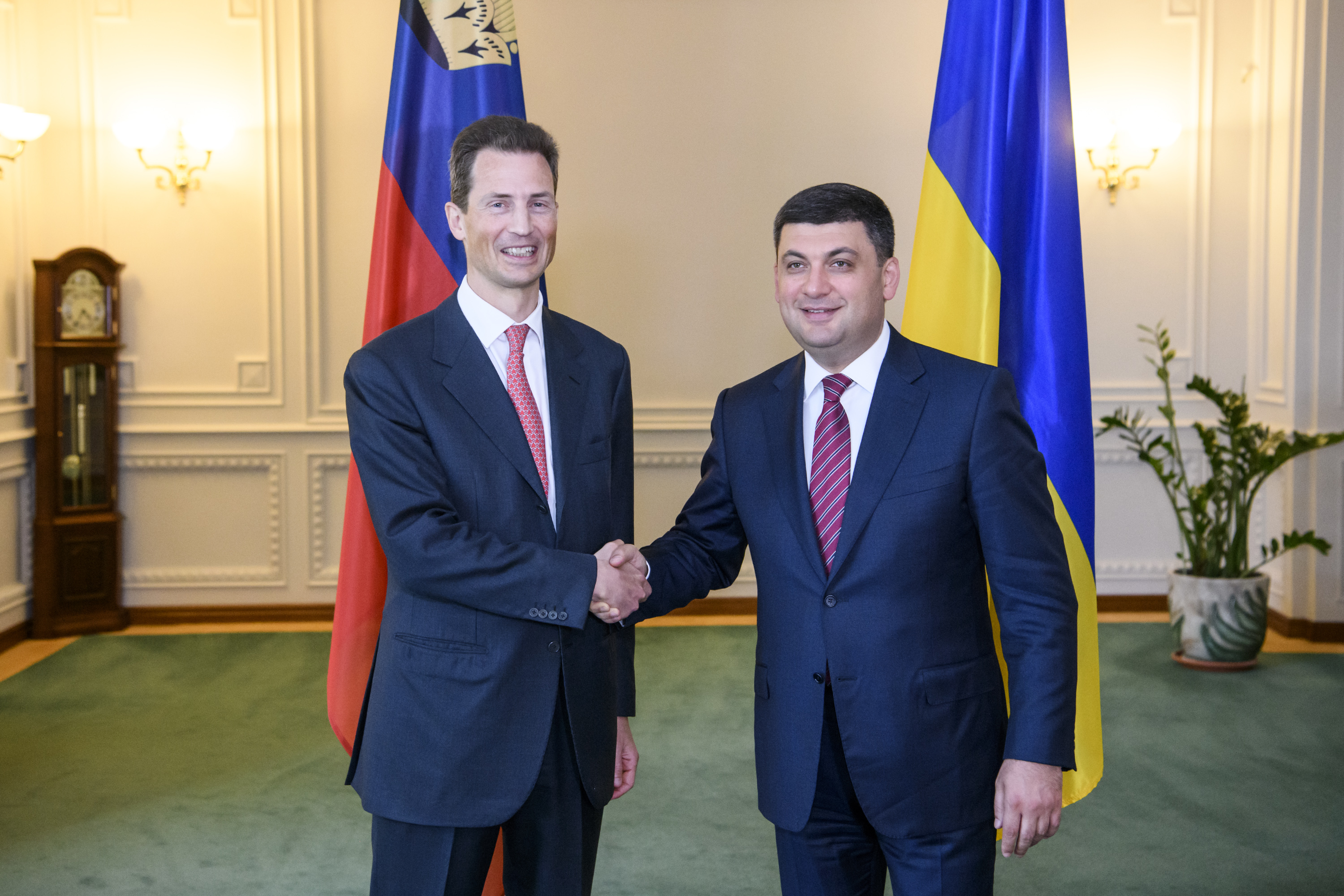 Alois Philipp, Prince of Liechtenstein and Volodymyr Groysman